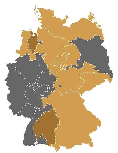 Die Mitgliedskirchen der VELKD - the Churches of the United Evangelical Lutheran Church of Germany